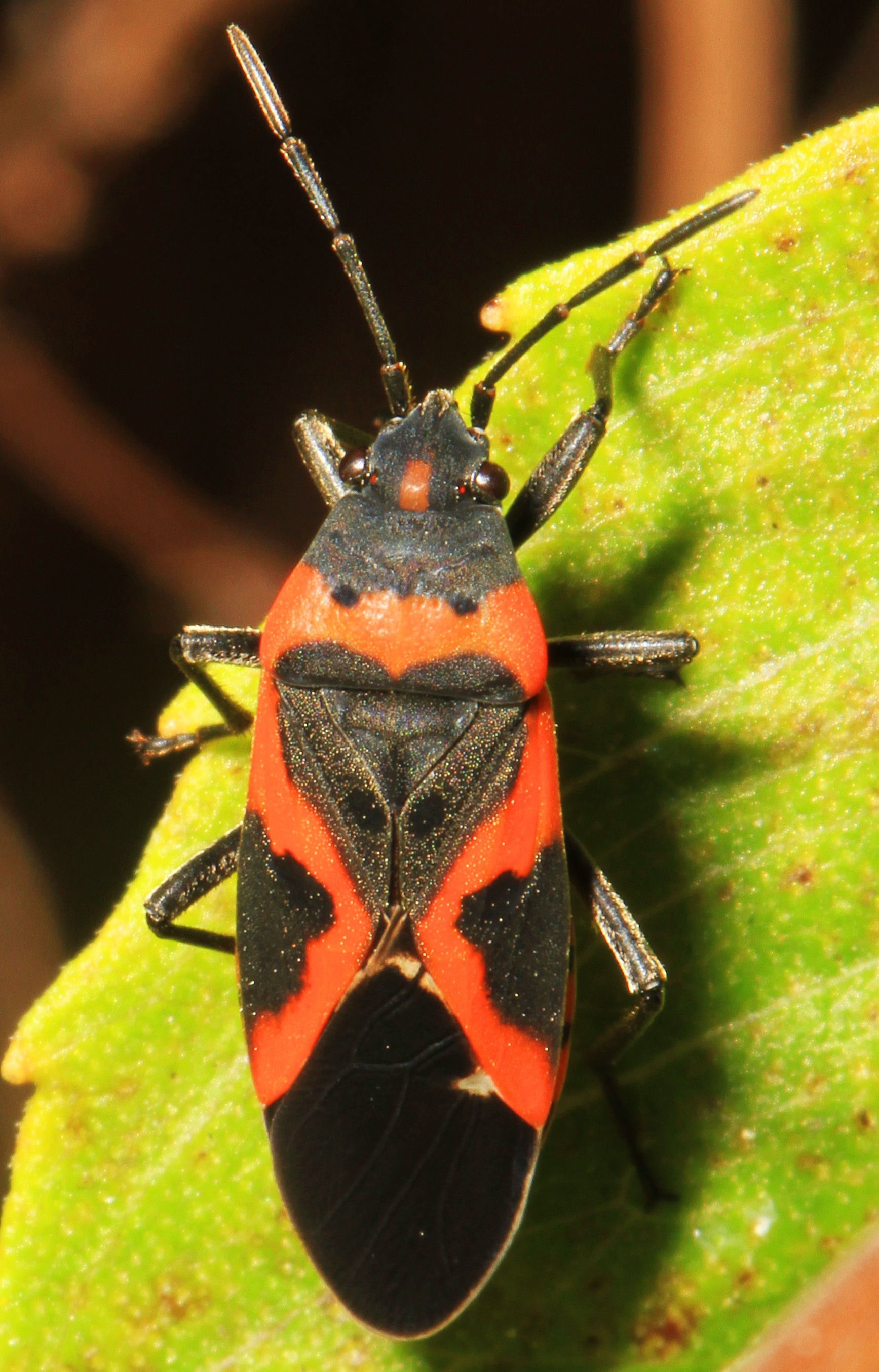 Small Milkweed Bug - Lygaeus kalmii, Meadowood Farm SRMA, Mason Neck, Virginia